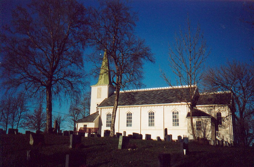 The Tiller church, Trondheim, Norway